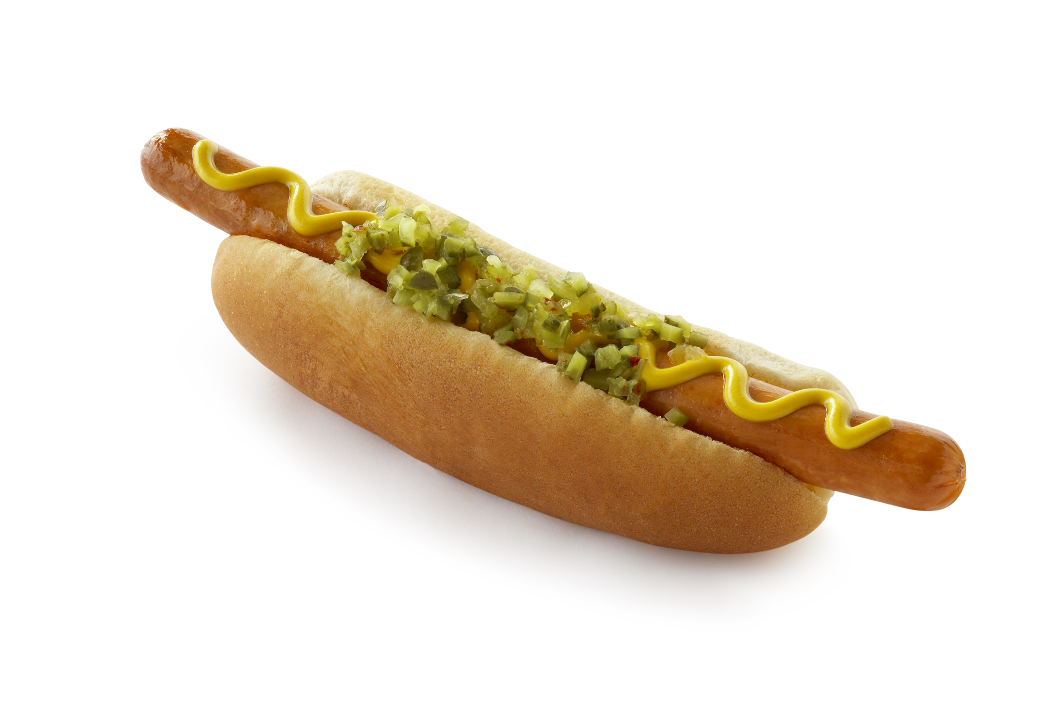 Dodger Dog made by Farmer John, covered with relish and mustard, and inside a bun